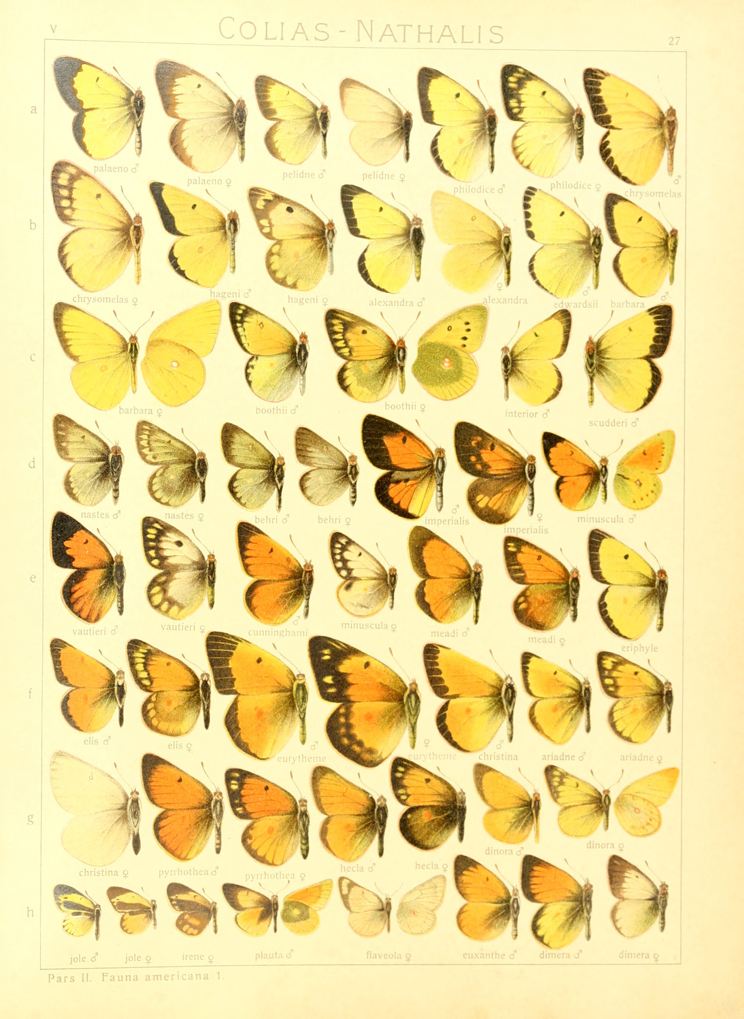 Plate 27 from Julius Röber Pieridae in Seitz, A. ed. (1907-) Die Großschmetterlinge der Erde, Verlag Alfred Kernen, Stuttgart Band 5: Abt. 1, Die exotischen Großschmetterlinge, Die Großschmetterlinge des amerikanischen Faunengebietes, The Macrolepidoptera of the world : a systematic account of all the known Macrolepidoptera: The Macrolepidoptera of the American faunistic region.Volume 5 part 1 text online read text See The Global Lepidoptera Names Index for valid names Colias palaeno (Linnaeus, 1758) Colias pelidne Boisduval & Le Conte, [1829] Colias occidentalis chrysomelas H. Edwards, 1877 hageni synonym for Colias philodice philodice Godart, 1819 Colias alexandra W.H. Edwards, 1863 Colias alexandra edwardsii Edwards, 1870 barbara synonym for Colias harfordii Hy. Edwards, 1877 Colias tyche boothii J. Curtis, 1835 Colias interior (Scudder, 1862) Colias scudderii Reakirt, 1865 Colias nastes Boisduval, 1832 Colias behrii W.H. Edwards, 1866 Colias imperialis Butler, 1871 synonym for Colias ponteni Wallengren, 1860 Colias minuscula Butler, 1881 synonym for Colias lesbia vauthierii Guérin-Méneville, [1830] Colias lesbia vauthierii Guérin-Meneville, 1829 cunninghami synonym for Colias lesbia vauthierii Guérin-Méneville, [1830] Colias meadii W.H. Edwards, 1871 Colias philodice eriphyle W. H. Edwards, 1876 Colias meadii elis Strecker, 1885 Colias eurytheme Boisduval, 1852 Colias christina W.H. Edwards, 1863 ariadne synonym for Colias eurytheme Boisduval, 1852 pyrrhothea synonym for Colias lesbia (Fabricius, 1775) Colias hecla Lefèbvre, 1836 Colias lesbia dinora W. F. Kirby, 1881 Nathalis iole(Boisduval, 1836) irene synonym for Nathalis iole (Boisduval, 1836) Nathalis plauta Doubleday, 1847 Colias flaveola Blanchard, 1852 Colias euxanthe C. & R. Felder, 1865 Colias dimera Doubleday, 1847